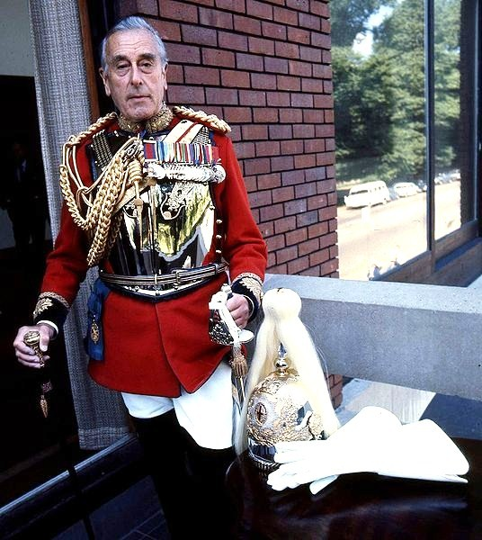 A portrait of Lord Mountbatten of Burma in the uniform of the Colonel-in-Chief of the Life Guards